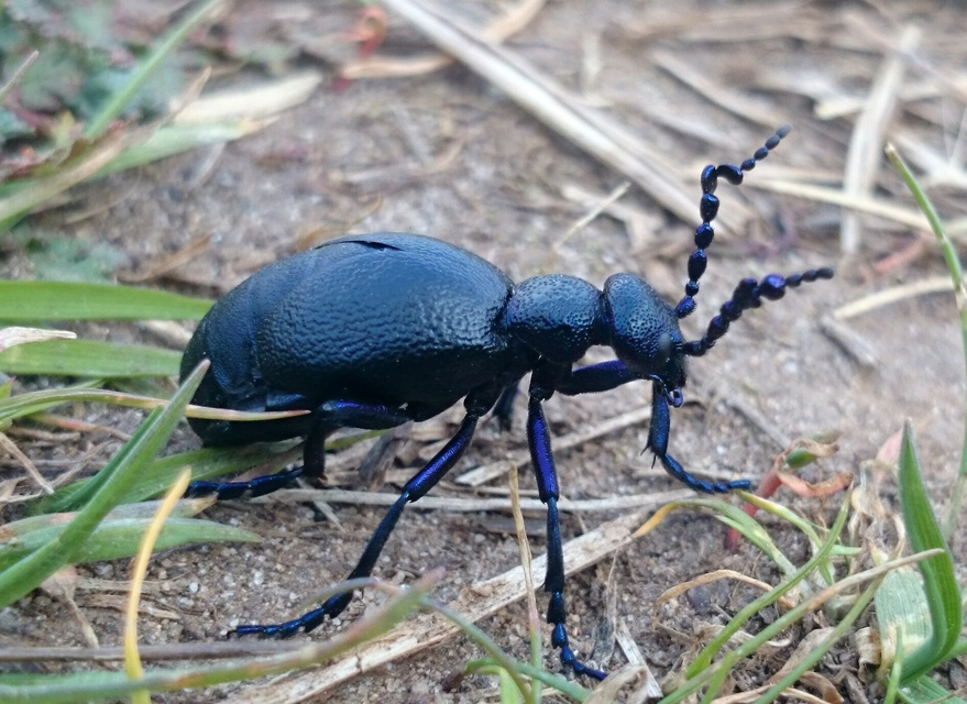 Meloe proscarabaeus male